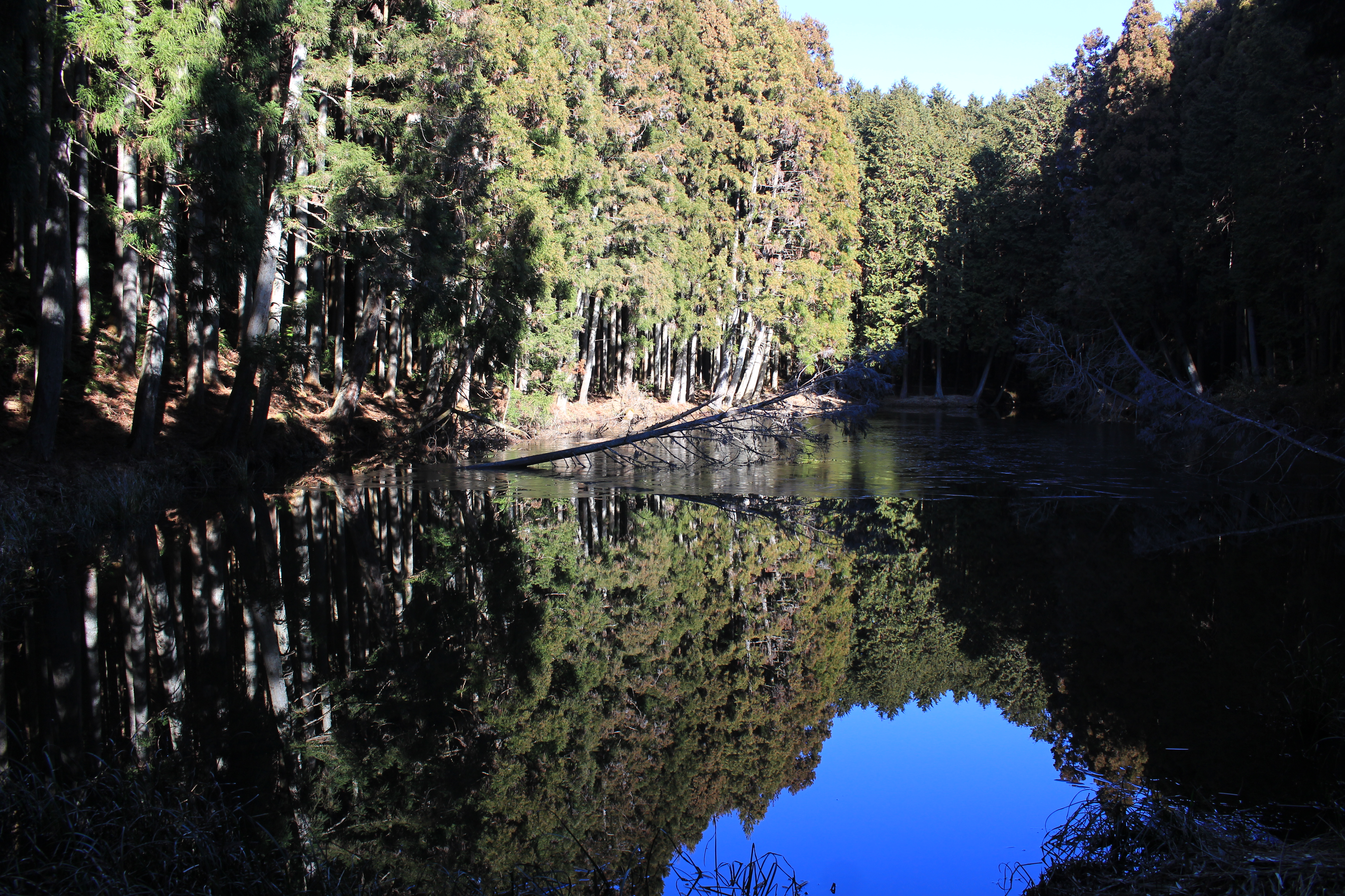 Tachibana Pond on Mount Hamaishi in Shimizu-ku, Shizuoka city, Shizuoka prefecture, Japan.